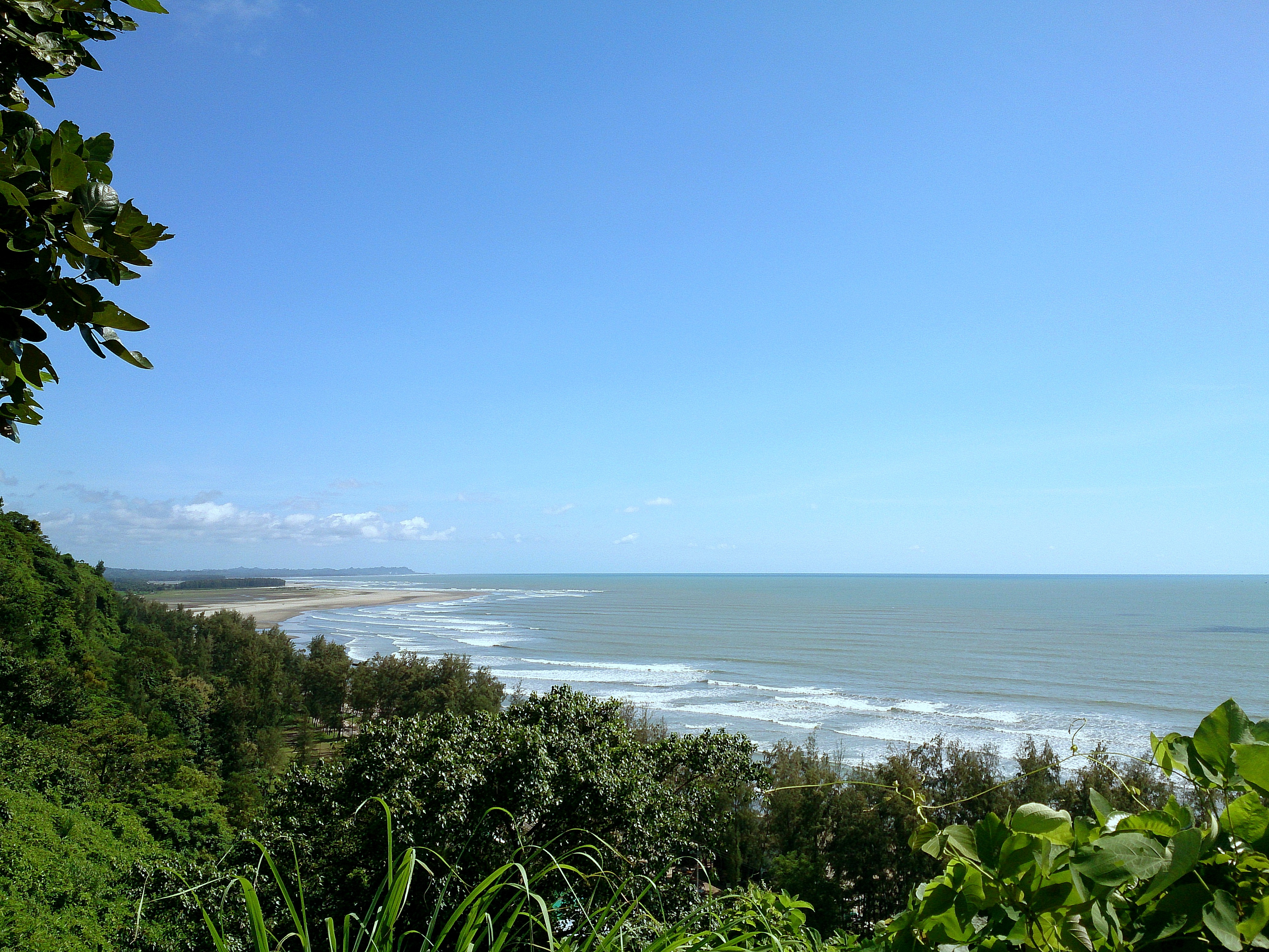 View of the sea from Himchari hill, at Himchari National Park in Cox's Bazar.